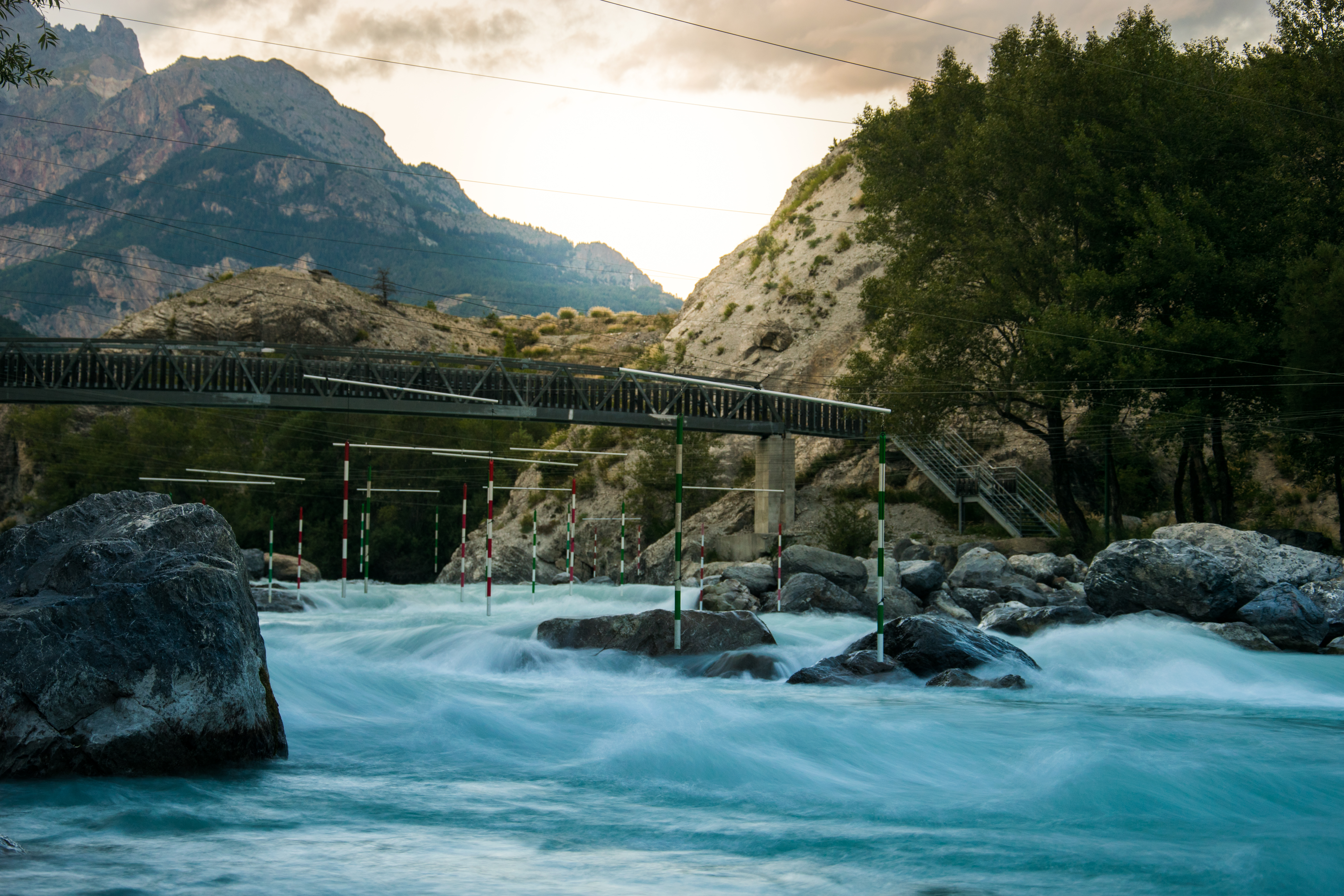 Canoe slalom stadium at L'Argentière-la-Bessée.